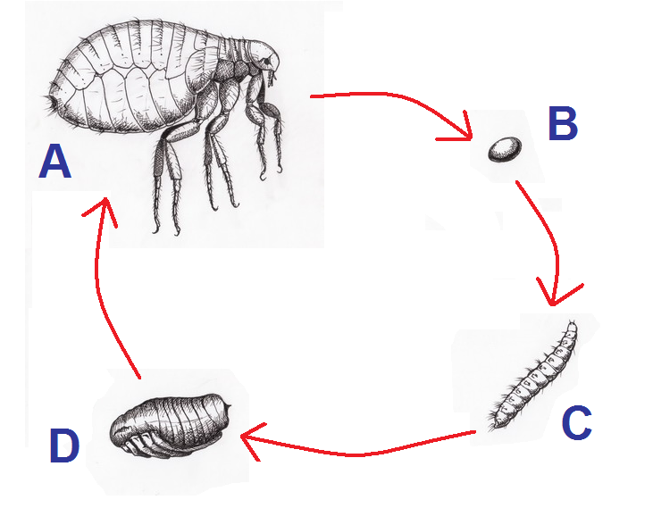 Human flea (Pulex irritans)